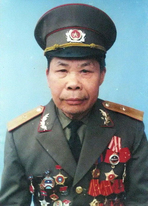 Thieu tuong Le Tien Phuc